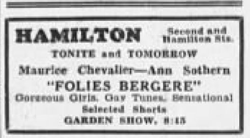 Hamilton Theater advertisement for the American musical comedy film Folies Bergère de Paris (1935) - 31 Jul. 1935 Morning Call, Allentown PA